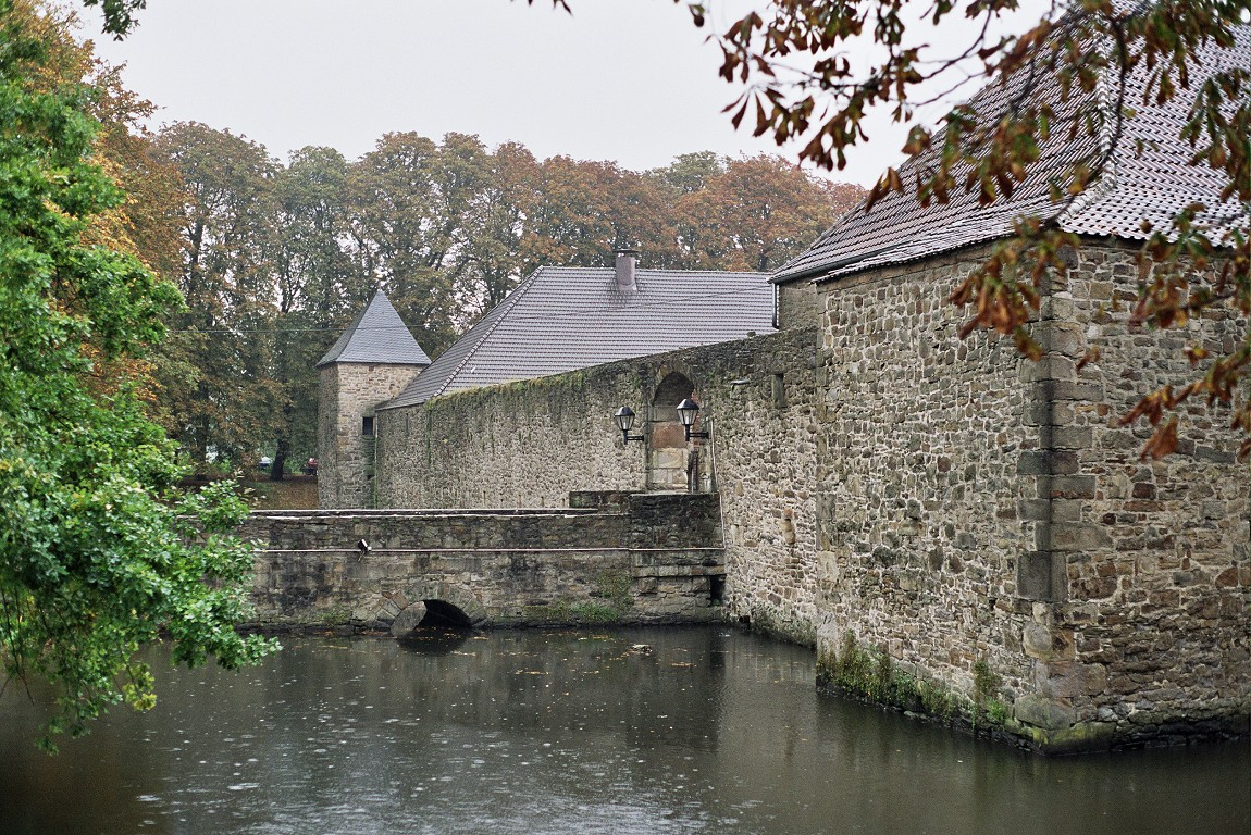 Haus Kemnade - front side